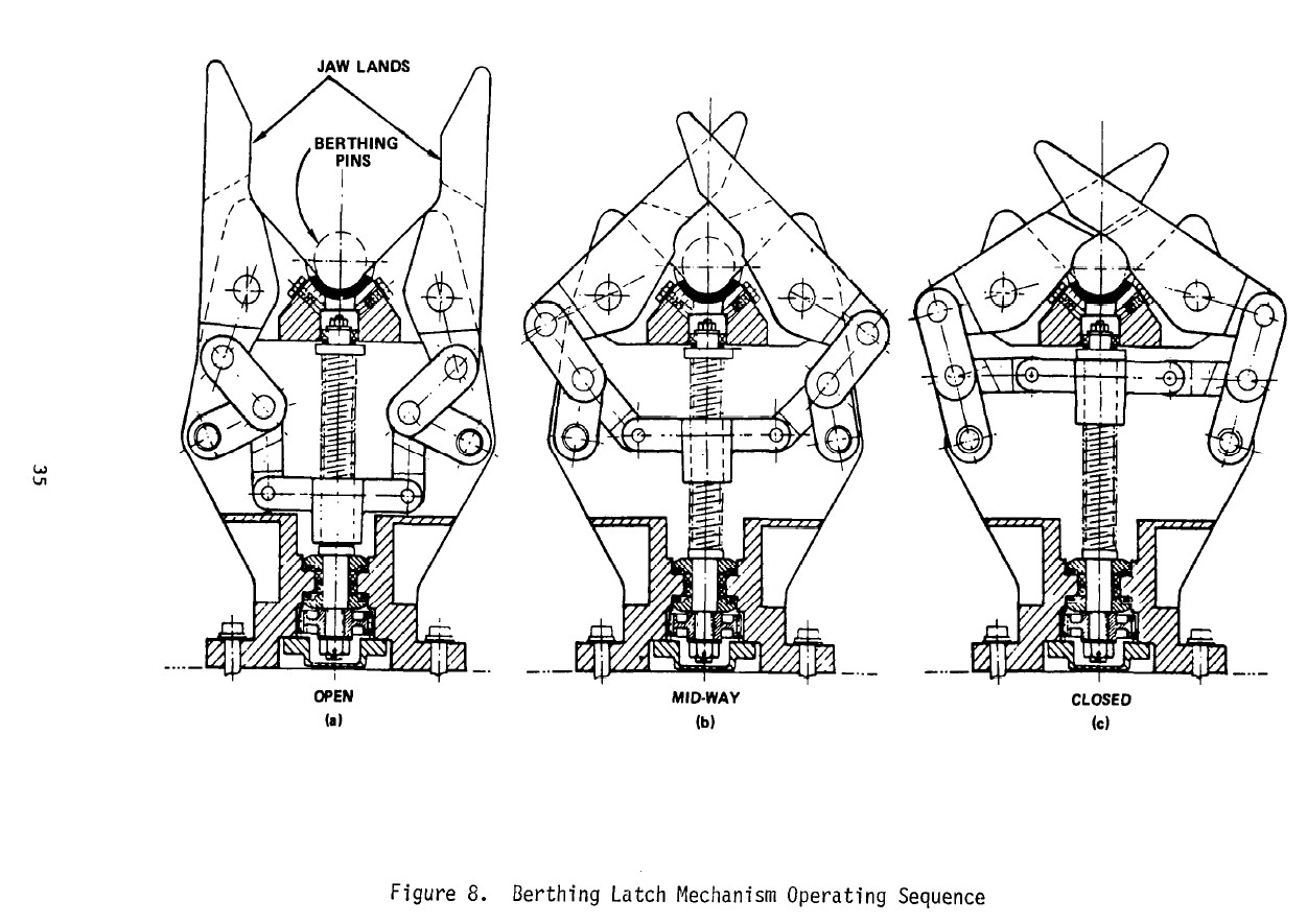 Screenshot from the reference.